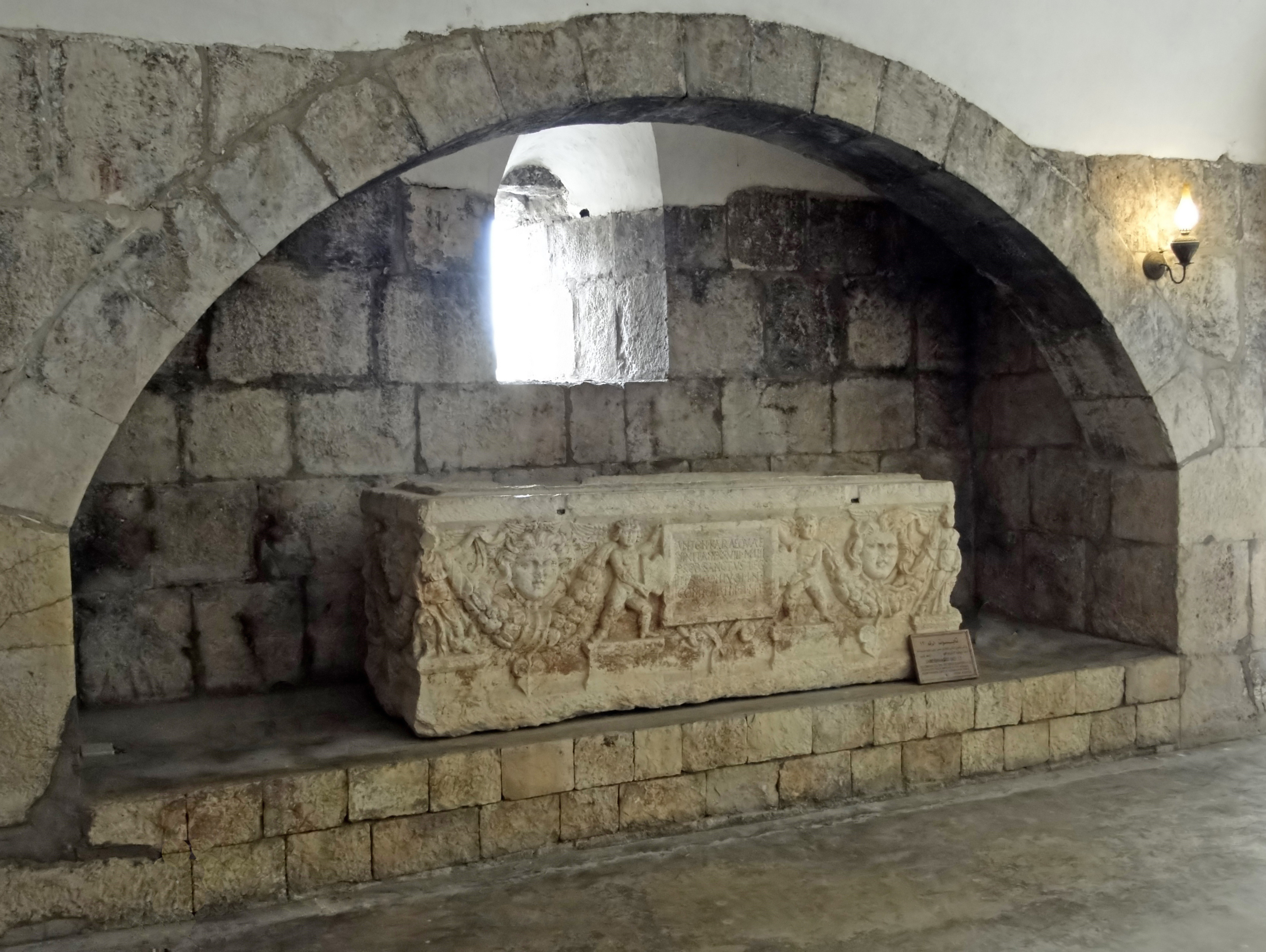 Sarcophagus of the 2nd century in the Apamea Museum, Syria.